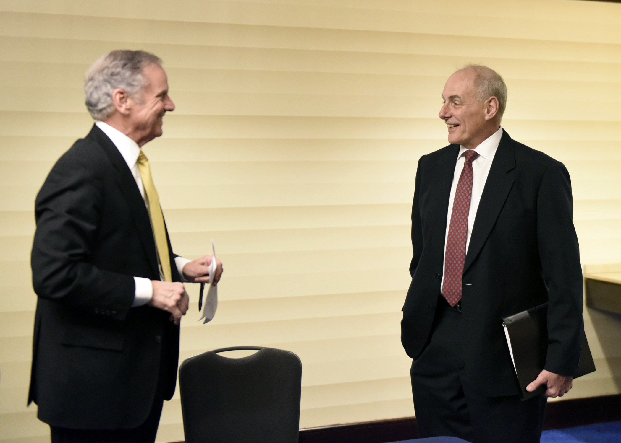 WASHINGTON - Secretary of Homeland Security John Kelly meets with Gov. Henry McMaster of South Carolina to discuss REAL ID during the National Governors Association event in Washington, D.C., Feb. 26, 2017. Founded in 1908, the NGA members are the governors of the 55 states, territories and commonwealths. NGA provides governors and their senior staff members with services that range from representing states on Capitol Hill and before the Administration on key federal issues to developing and implementing innovative solutions to public policy challenges through the NGA Center for Best Practices. Official DHS photo by Barry Bahler.